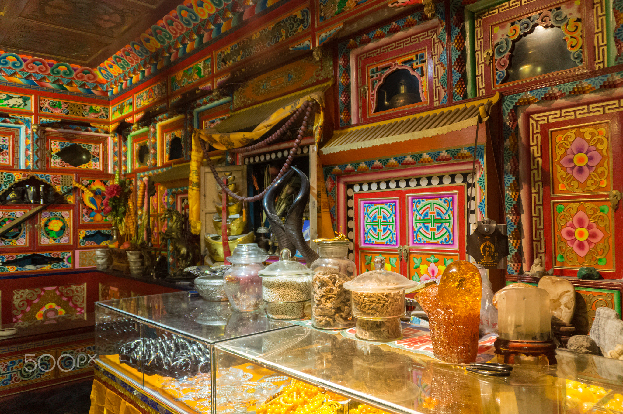 500px provided description: Tibetan Buddhism [#beautiful ,#faith ,#Tibetan Buddhism ,#Jiuzhaigou National Park]